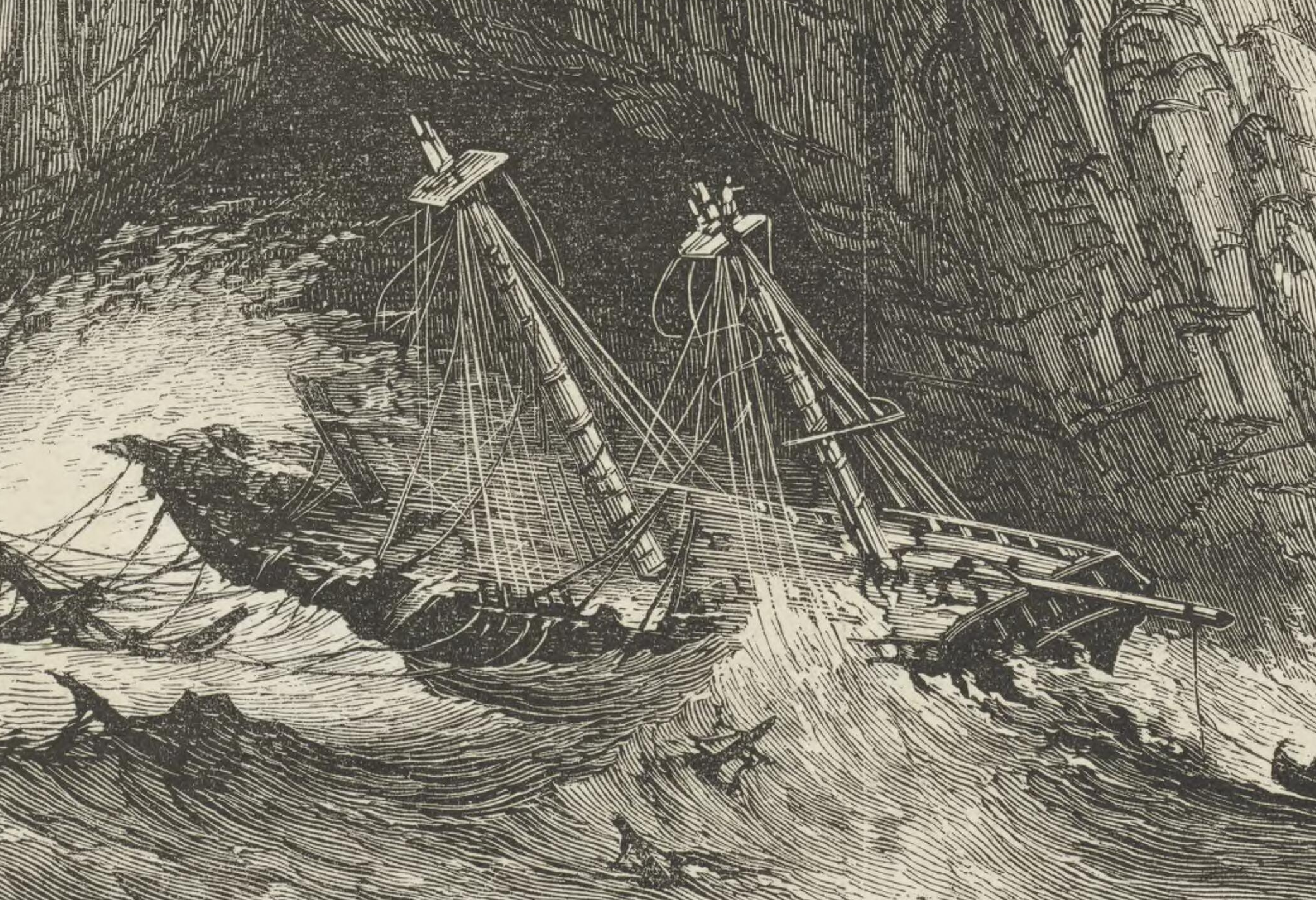 Wreck of the American ship General Grant on Auckland Island, in Illustrated London News, April 18, 1868